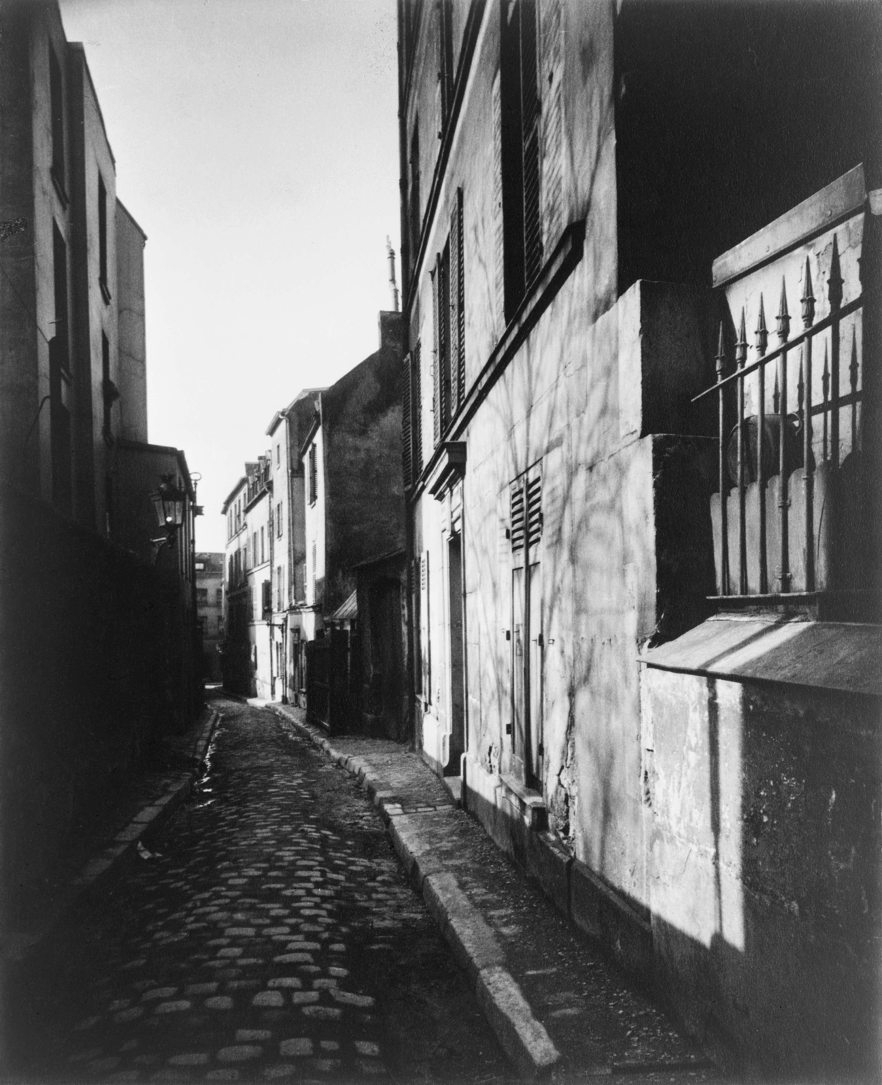 Narrow street in Paris, France.